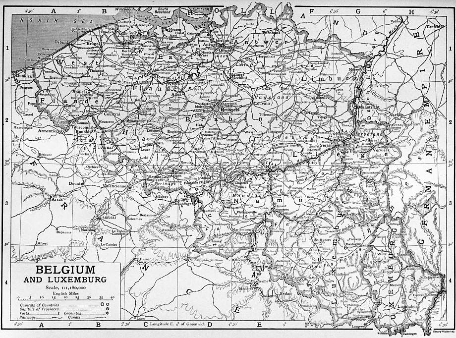 Map of Belgium and Luxemburg. Illustration from 1911 Encyclopædia Britannica, article Belgium